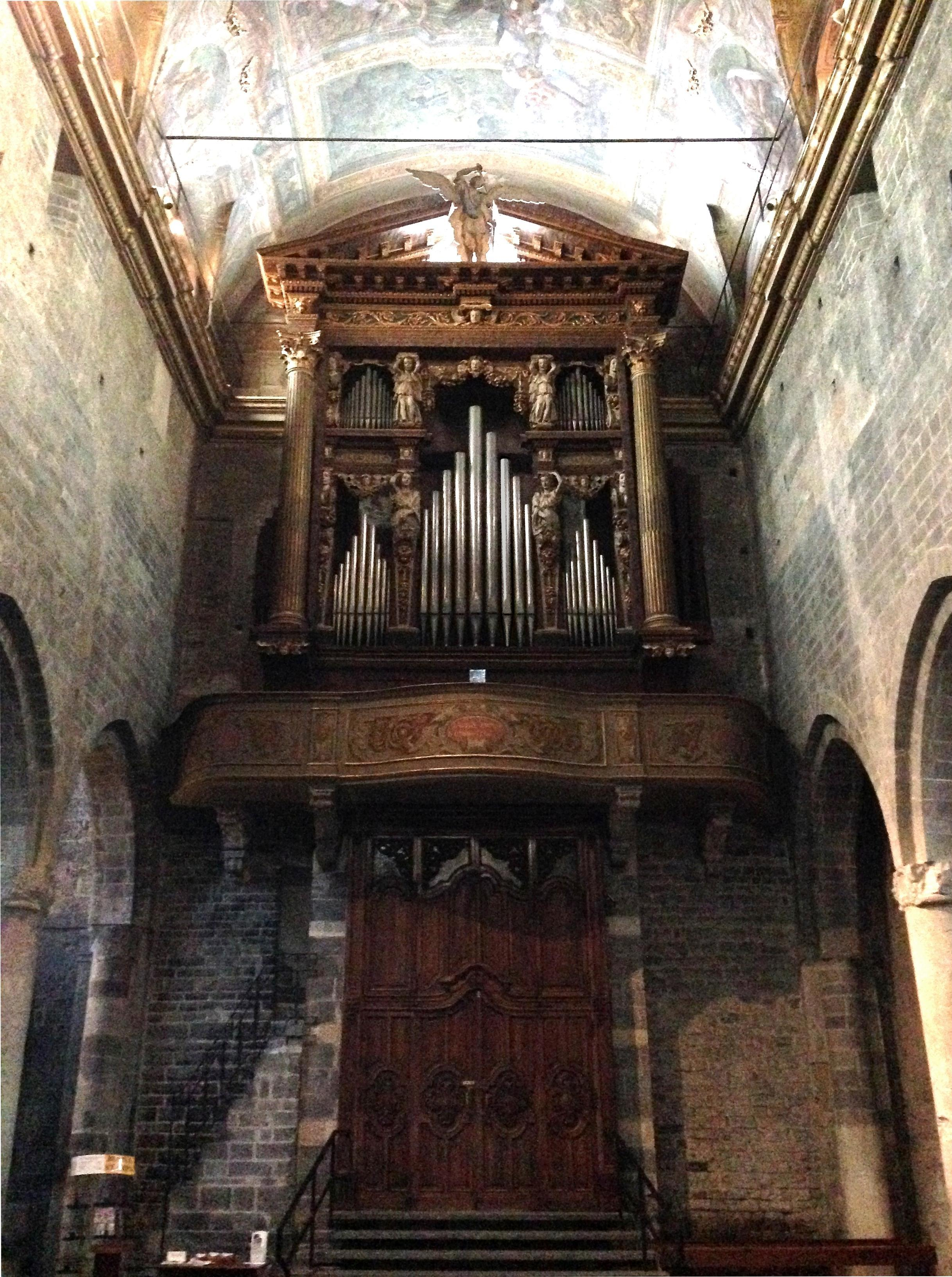 The Serassi organ of the Albenga's Cathedral, Italy.